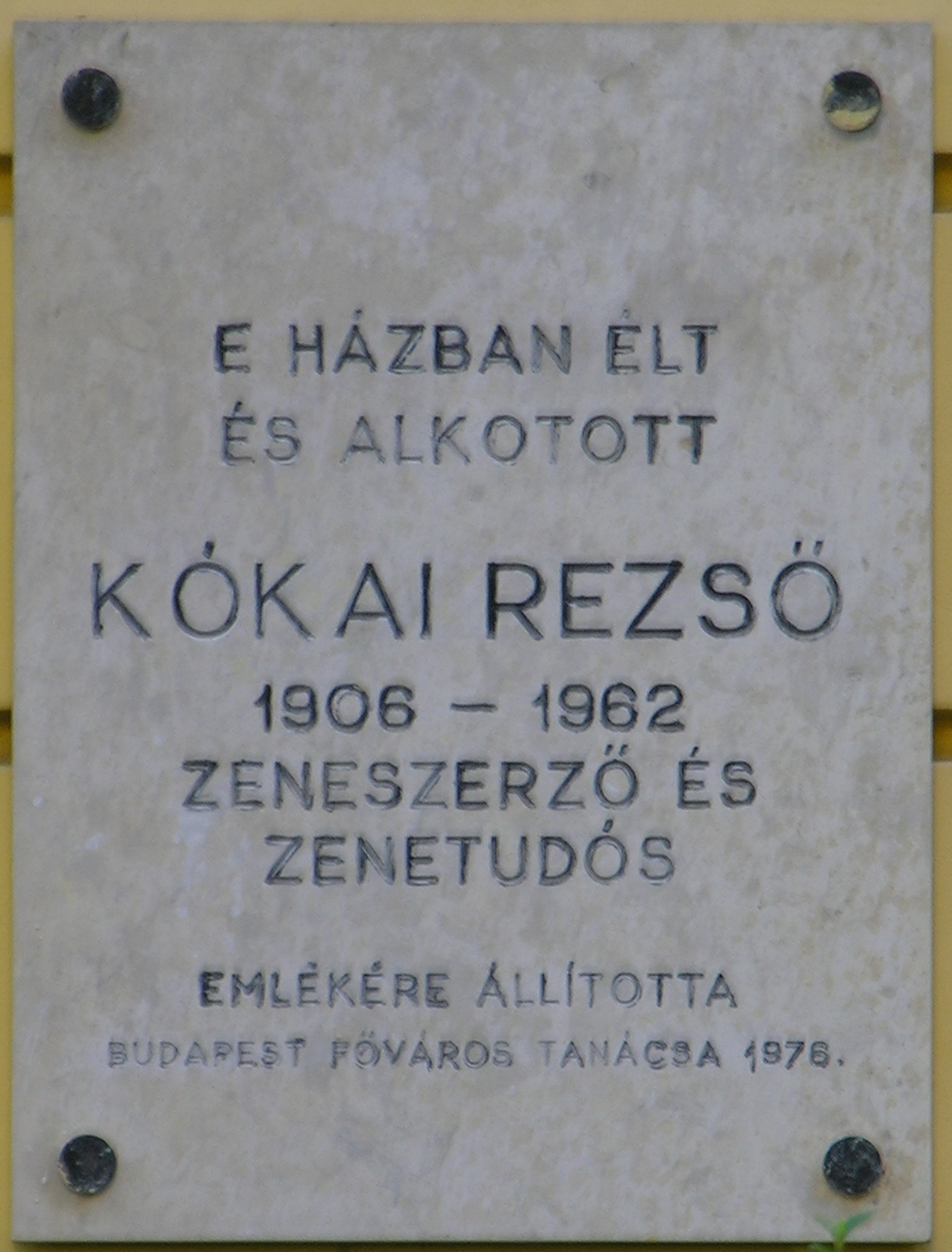 Rezső Kókai commemorative plaque in Budapest District II, Torockó Street No 11